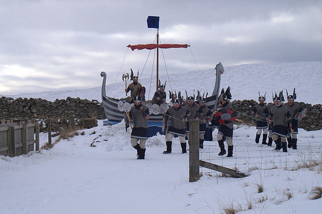 The vikings are coming, Baltasound The Uyeasound Jarl, in his galley pulled by the jarl's squad, arrives at Baltasound Junior High School for the annual visit on the day of Uyeasound Up Helly Aa.